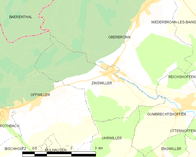 Map of French municipality